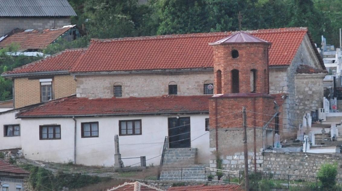 St. Clement Church in Velgošti, Macedonia